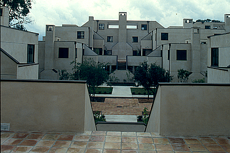 Lovett Square Condominiums in Houston, TX by William T. Cannady, 1979